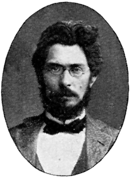 Image scanned from the book "Svenskt Porträttgalleri XX - Arkitekter, Bildhuggare, Målare m.fl. " ("Swedish Portrait Gallery XX - Architects, Sculptors, Painters, ") published 1901